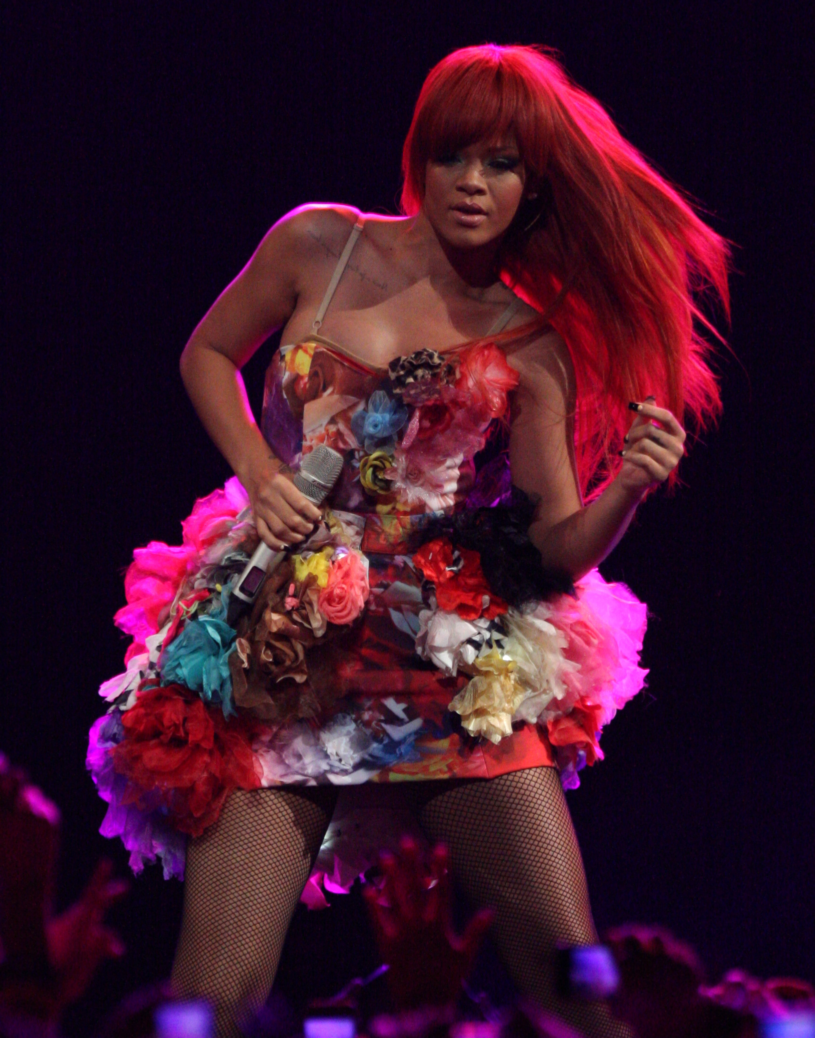 Rihanna performing at her Last Girl On Earth Tour in Sydney, Australia in March 2011.